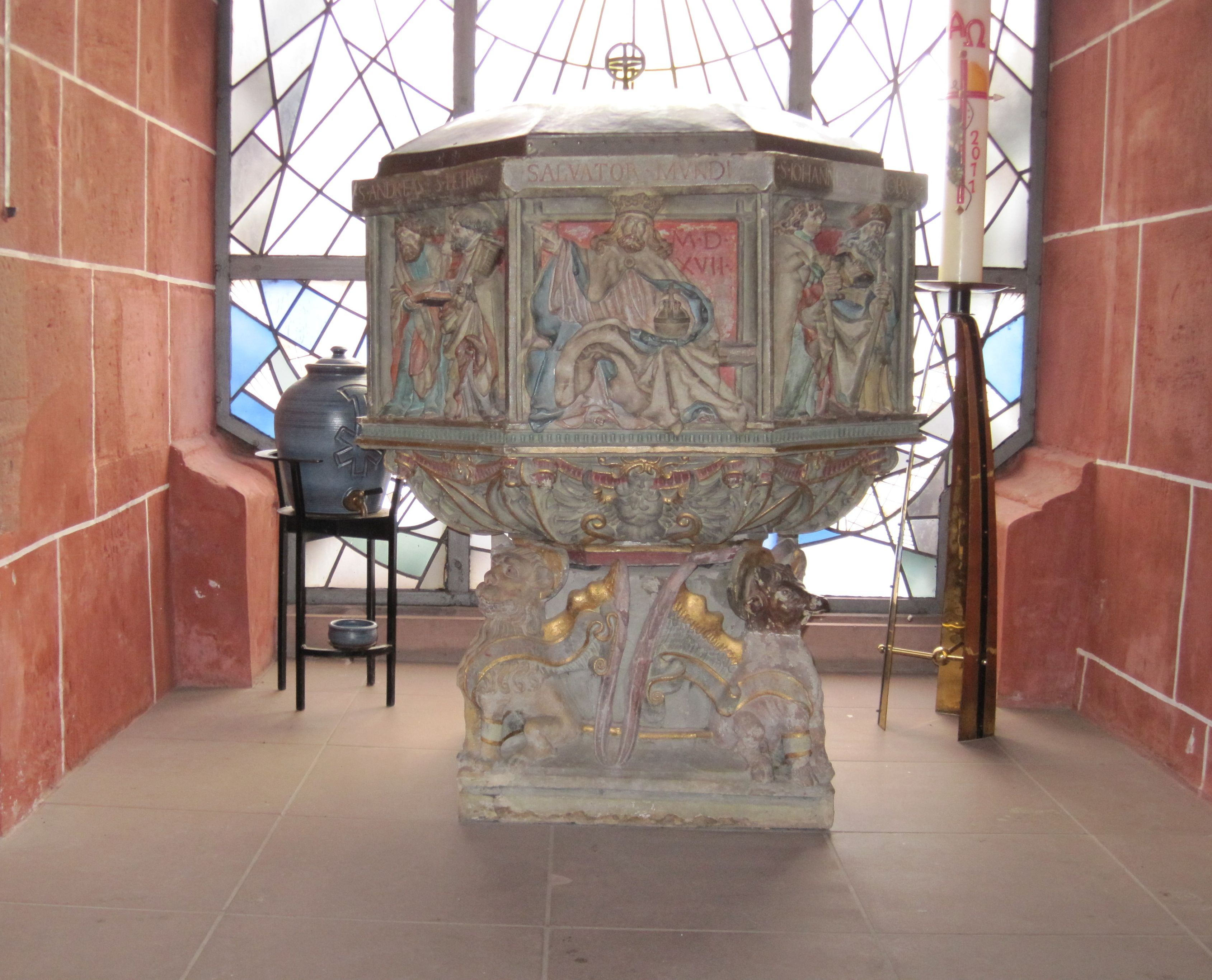 Baptismal font by Peter Schro at St. Peter’s and Paul’s parish church in Eltville, Germany, 1517